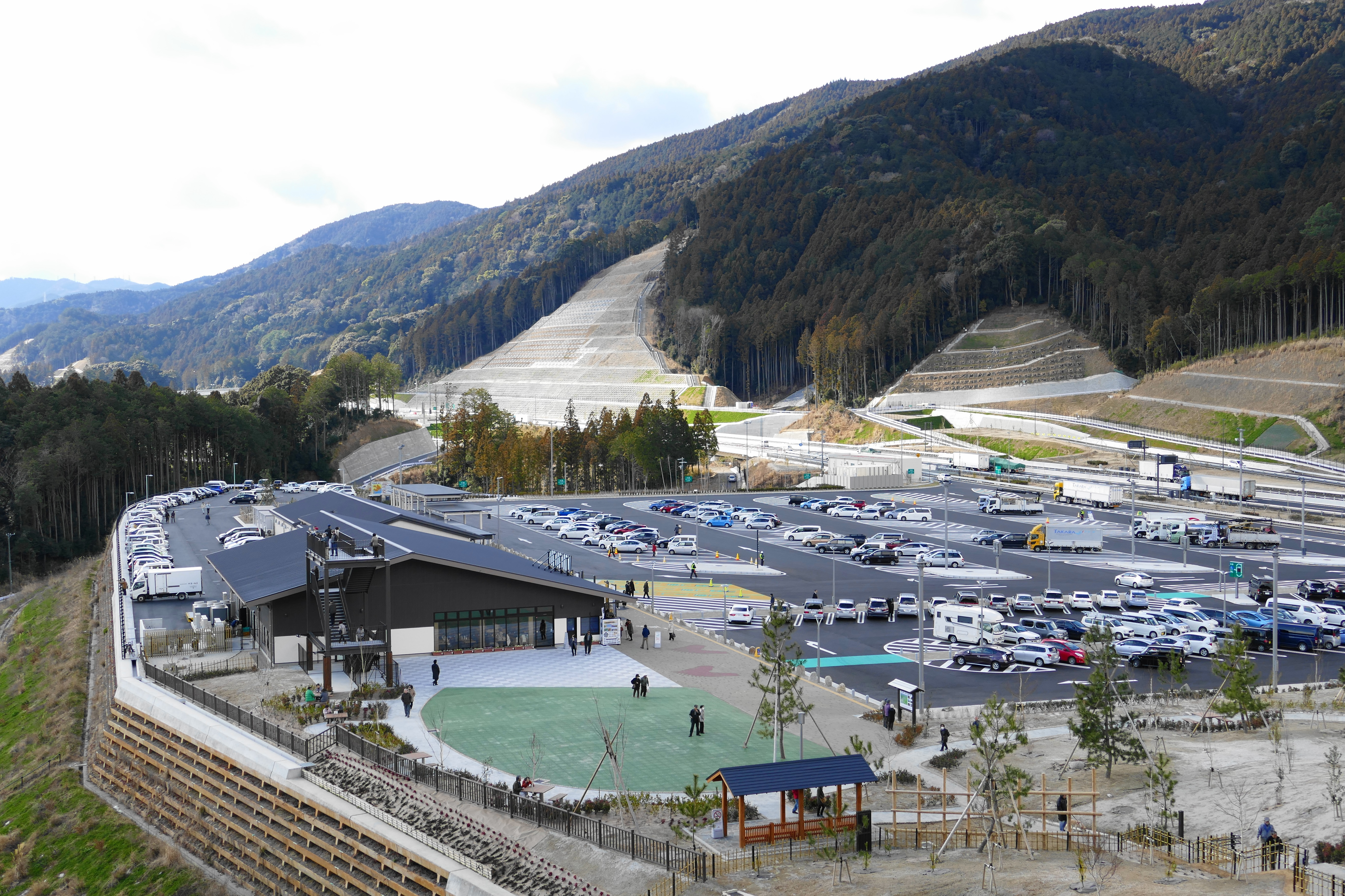 Nagashino-Shitaragahara Paking Area,Aichi prefecture,Japan